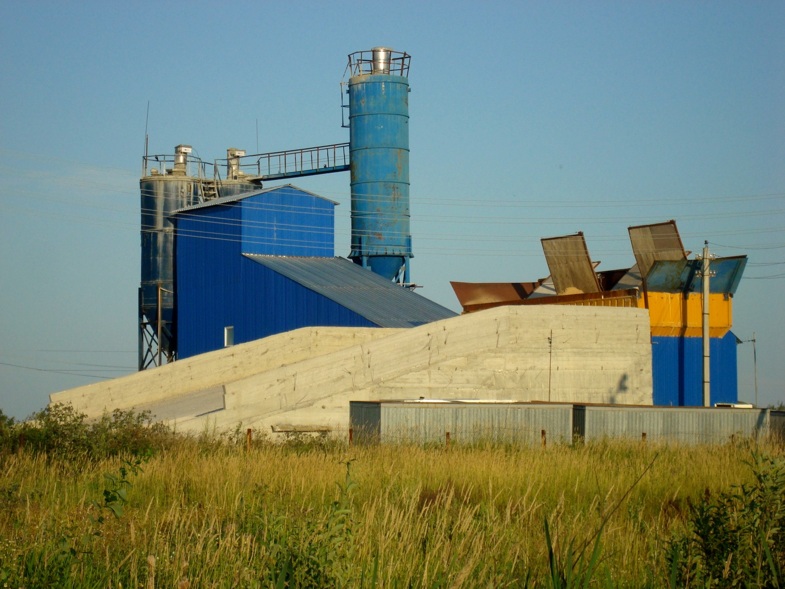 Concrete factory in Old Annino, Petushki rayon, Vladimir oblast, Russia.